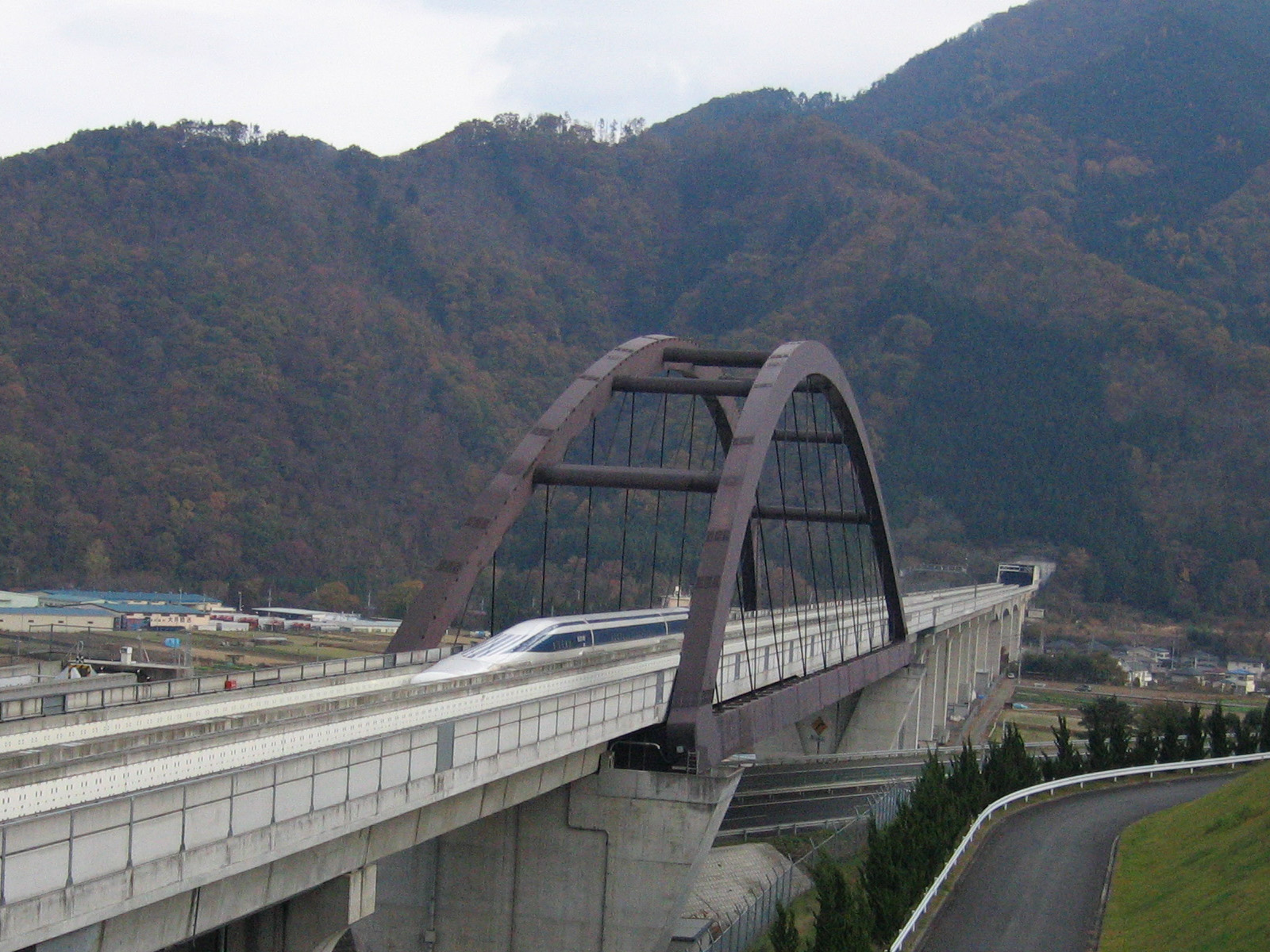 JR-Maglev (which is Maglev train in Japan).